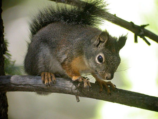 Douglas Squirrel (Tamiasciurus douglasii), aka Chickoree. One of the red squirrels. Taken at Lake Forest, California, which is on Lake Tahoe. Probably should edit out the extreme backlight, but.....